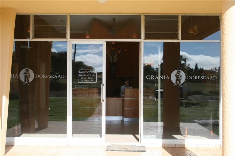 Entrance to the Orania Town Hall (Dorpskantoor)